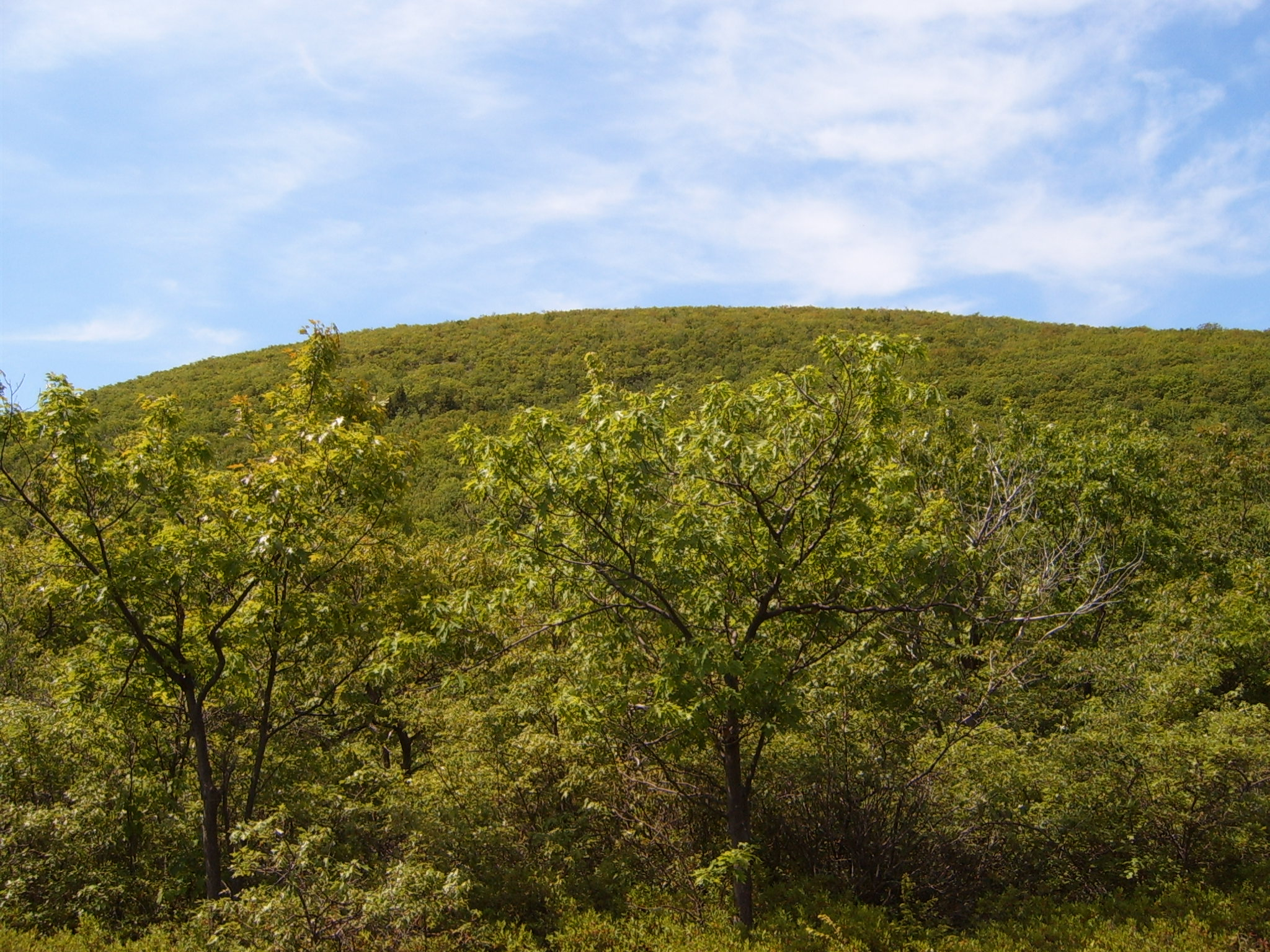 Peak of Bear Mountain (Connecticut). Taken with digital camera in June, 2005